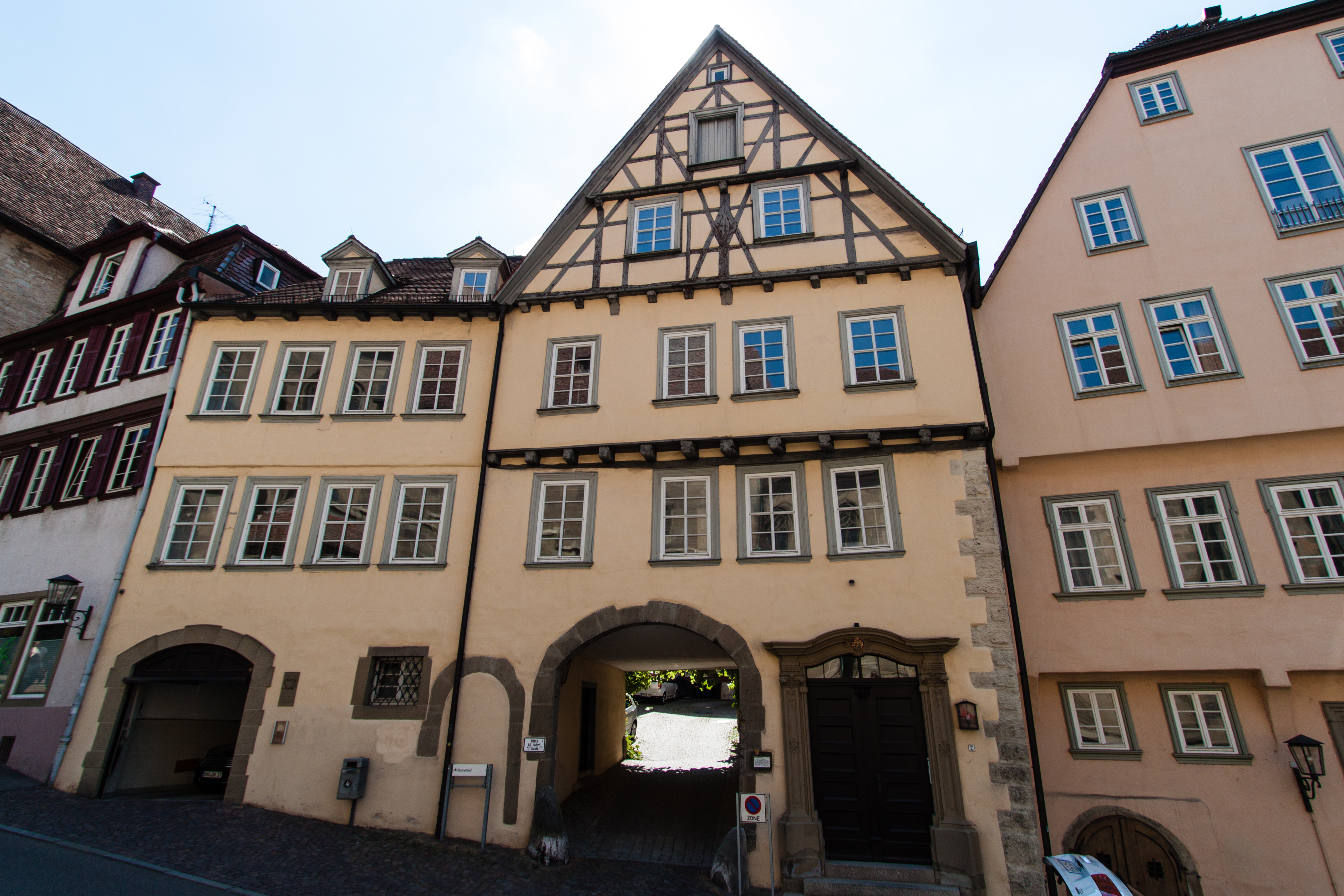 House Bonhoeffer in Schwaebisch Hall Germany